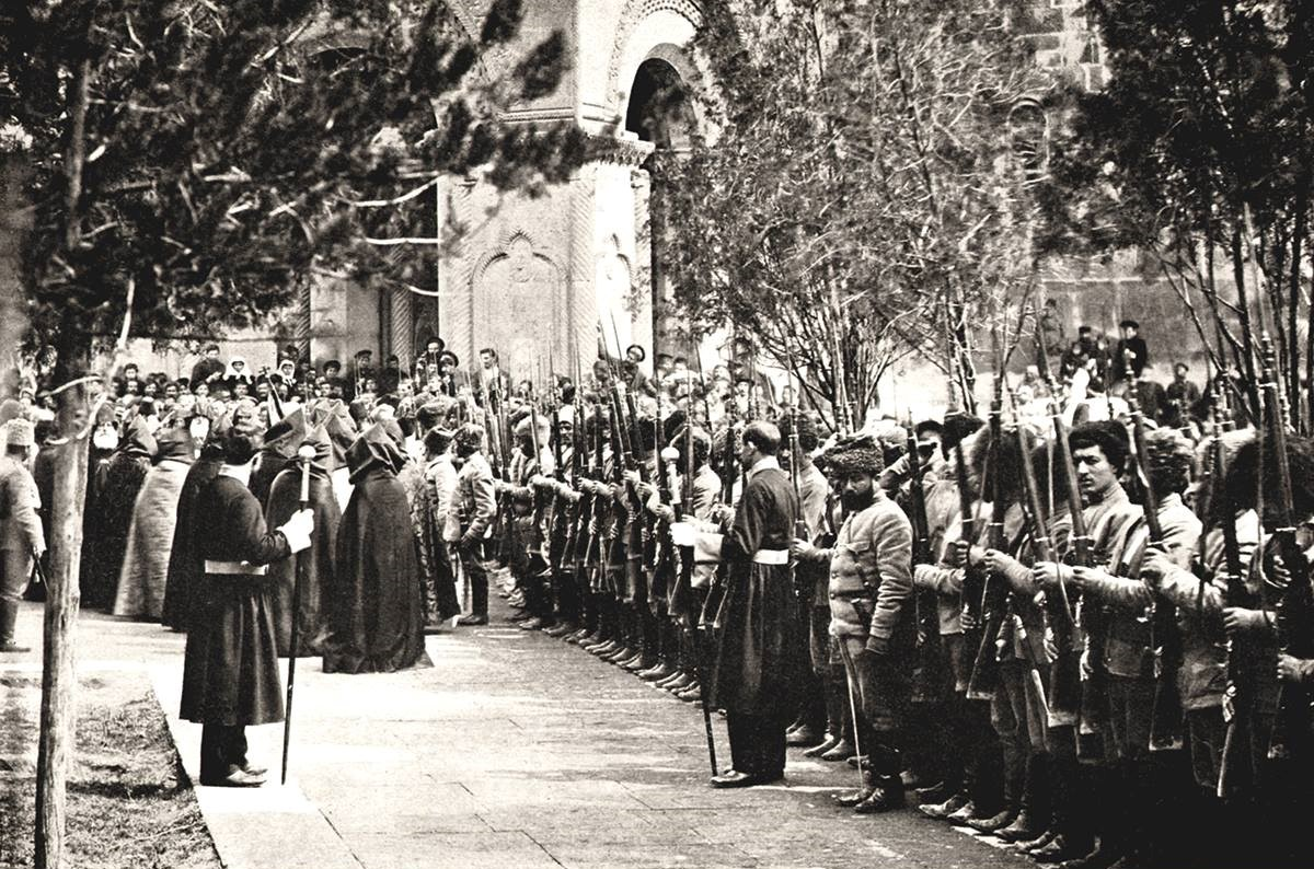 Armenian volunteers receive blessings from the Catholicos of All Armenians, His Holiness Gevorg V on the eve of the battle. 1918